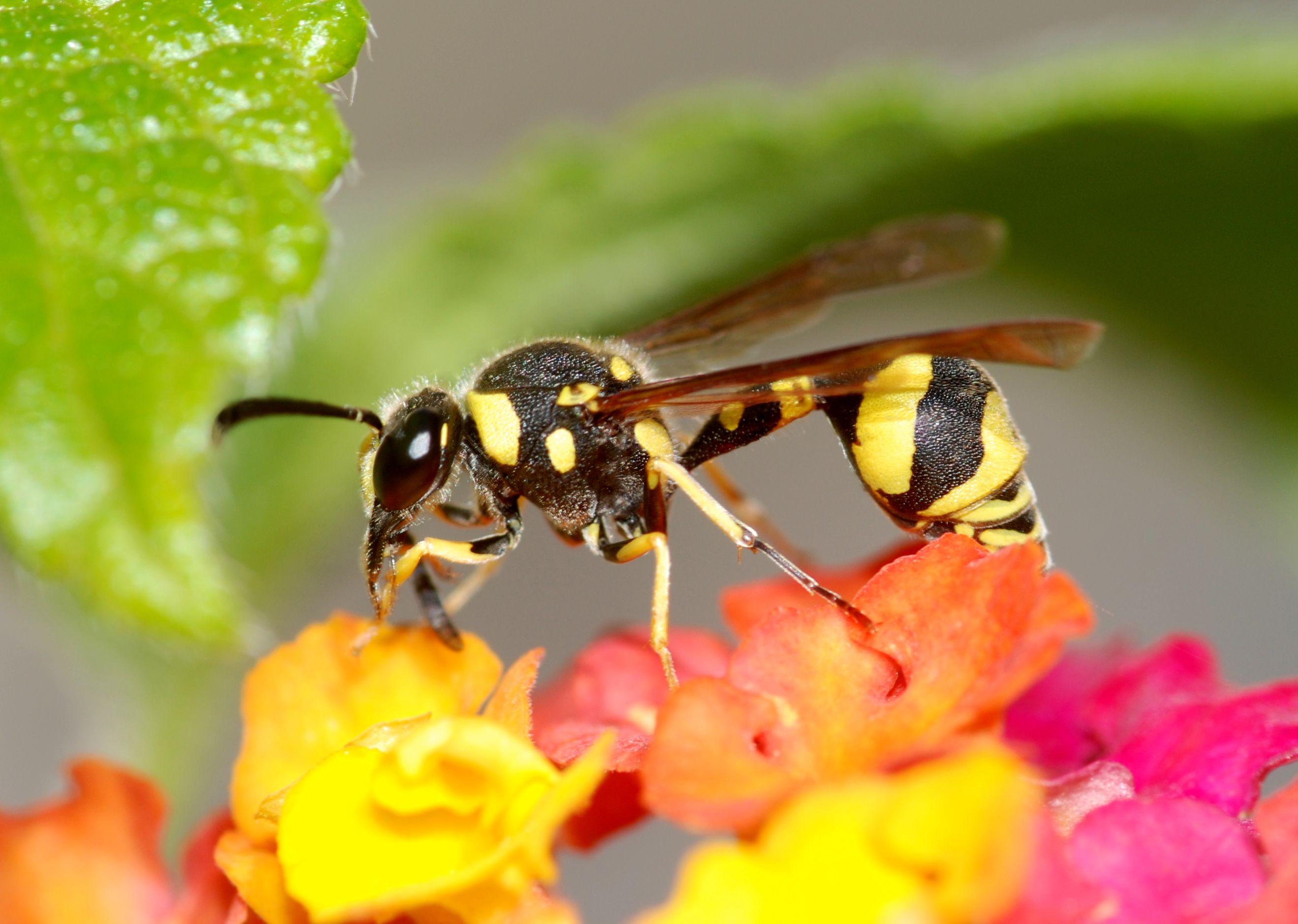 A Common Potter wasp (Eumenes cf. coarctatus)